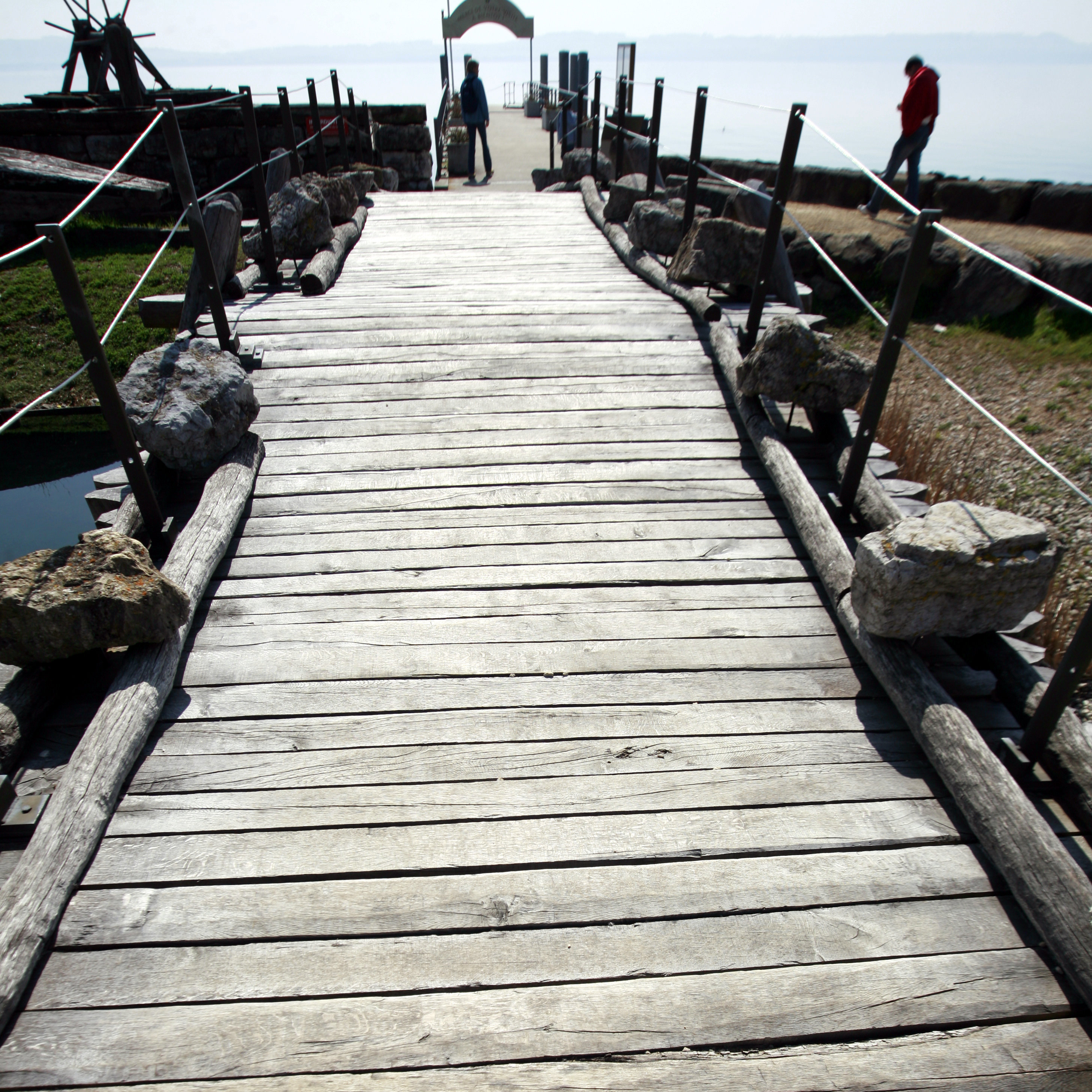 Reconstitution of a segment of a Celtic bridge. The original bridge was 90 metres long and was built across the Thielle river in the 3rd century BCE. It fell in the 1st Century BCE. Remains of 20 people were found underneath, as well as numerous personal items